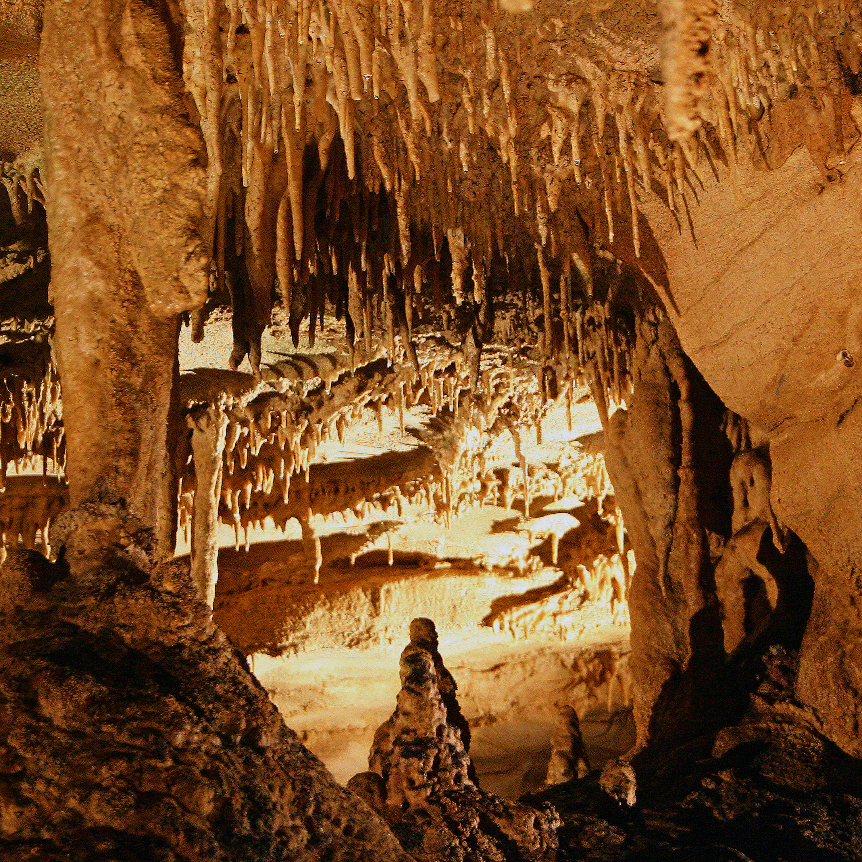 "Stalactites and stalagmites inside Mammoth Cave, formed by dripping water."